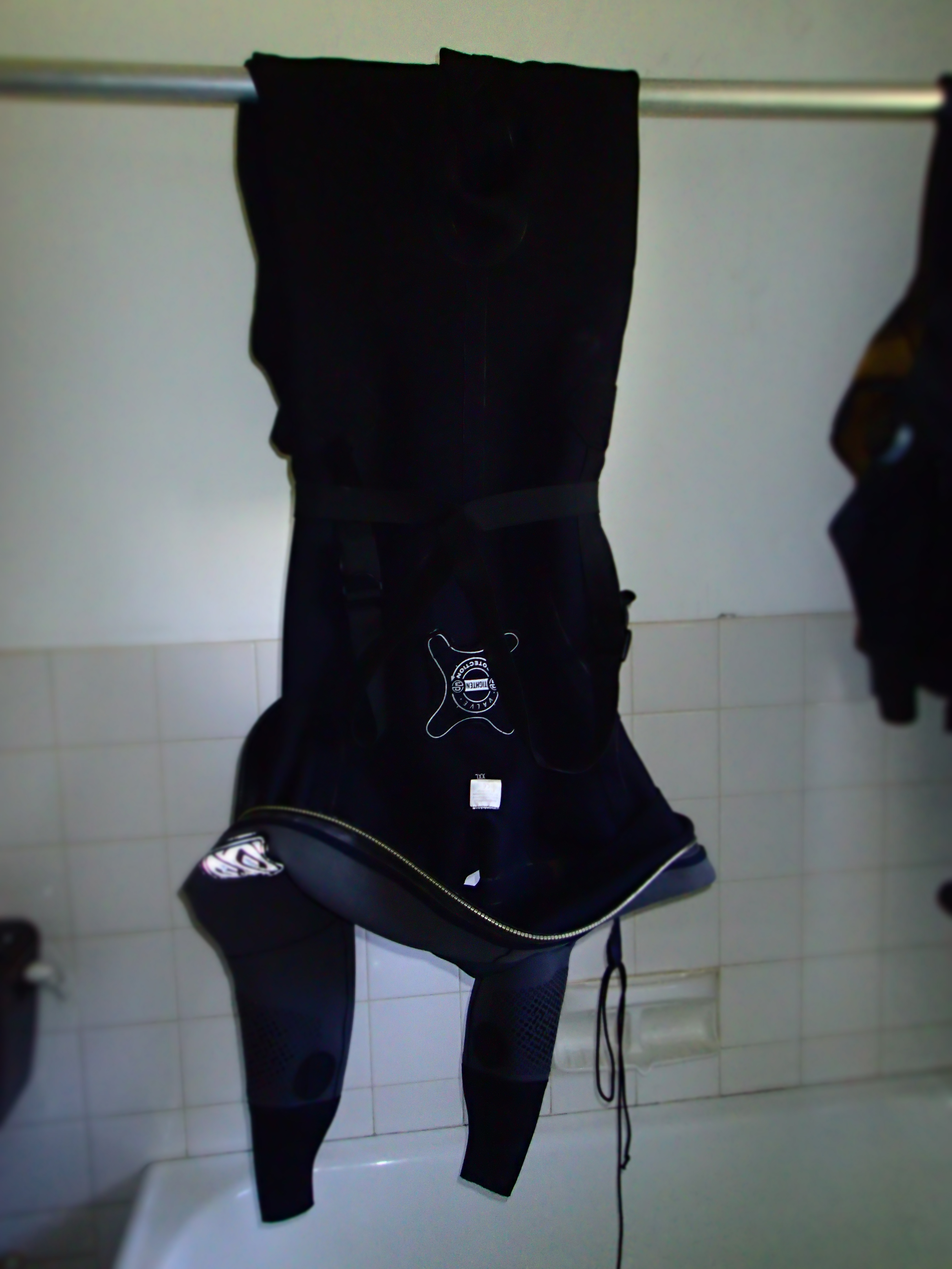 Neoprene drysuit inside out hanging up for airing